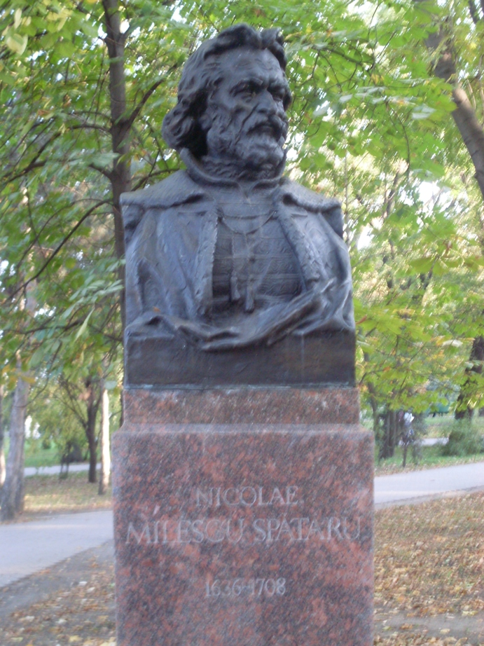 Bust of Nicolae Milescu-Spătarul in the Alley of Classics of Chişinău.